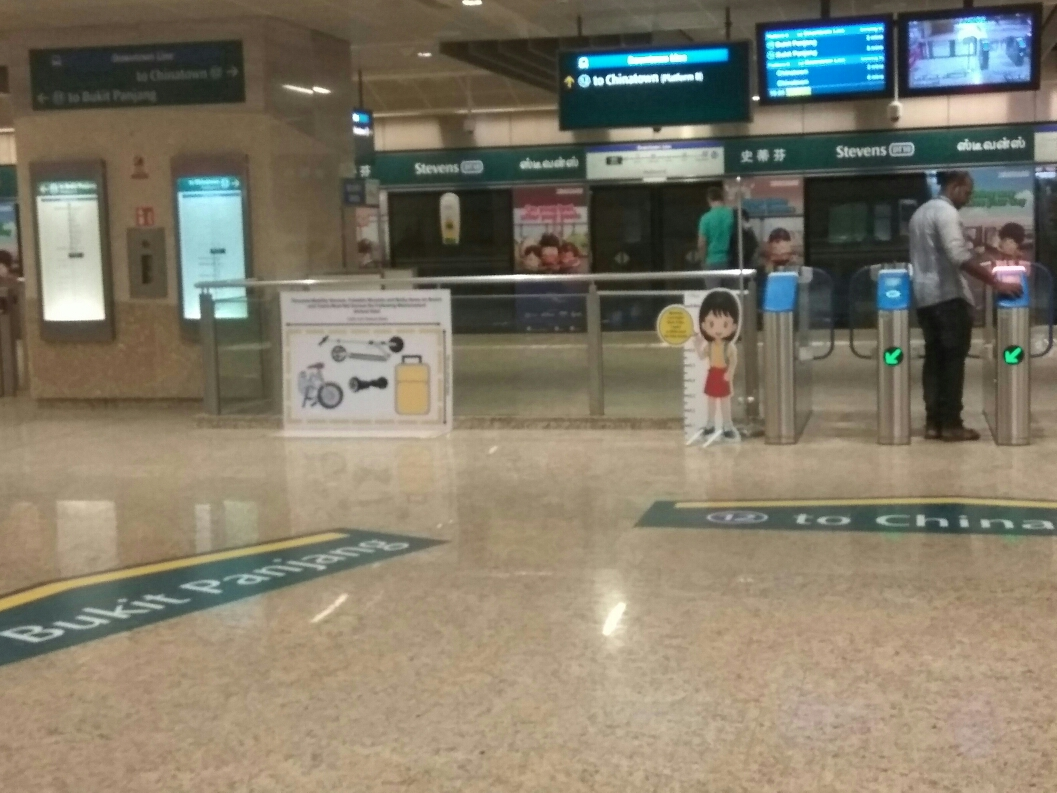 Platform B of Stevens MRT Station